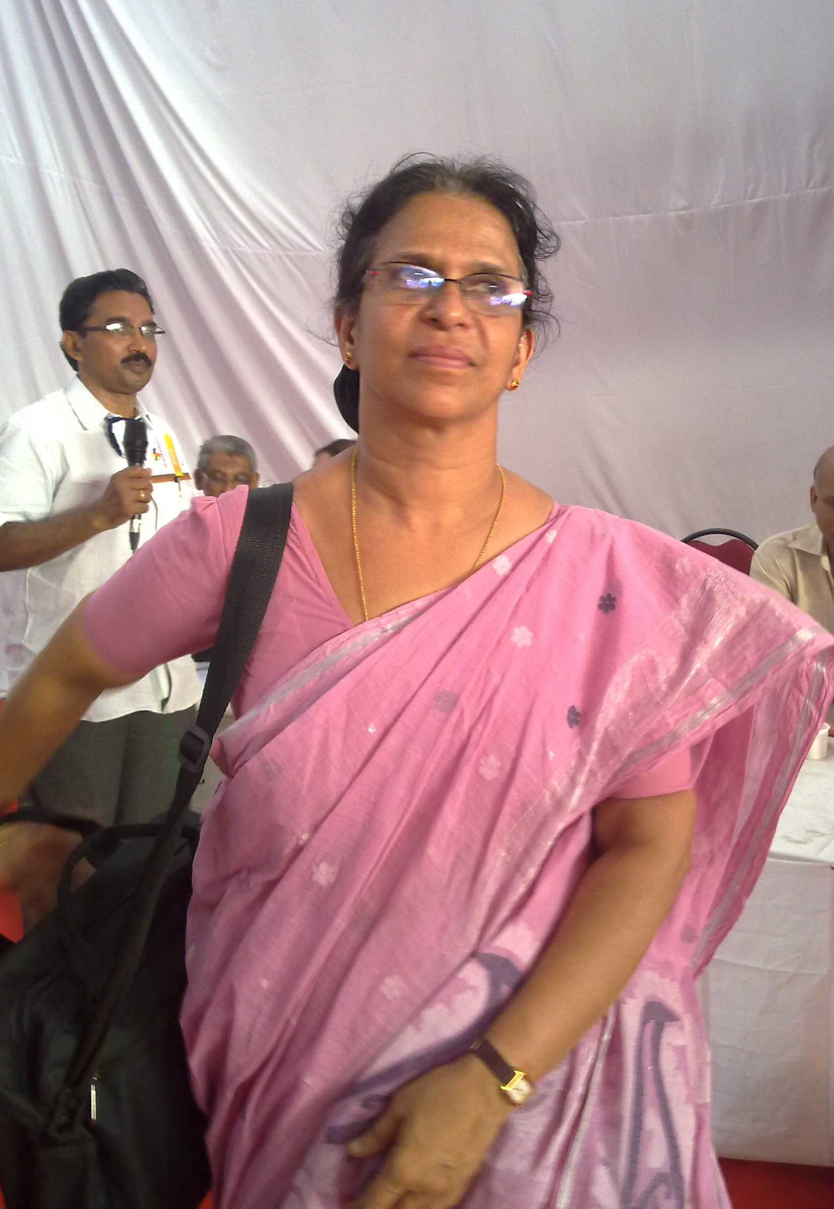 Dr.Khadeeja mumtaz at gender fest 2012, Kozhikode